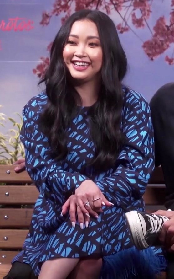 Interview with actors from the movie To All the Boys: P.S. I Still Love You, Lana Condor (Lara Jean) and Noah Centineo (Peter Kavinsky).